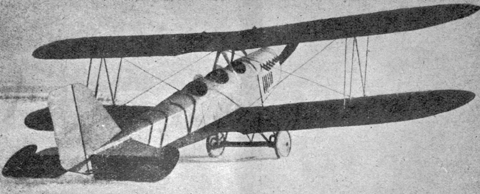 Heinkel HD 35 photo from L'Air May 15,1926